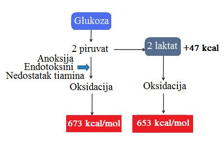 Metabolism of Glucose and Lactate.